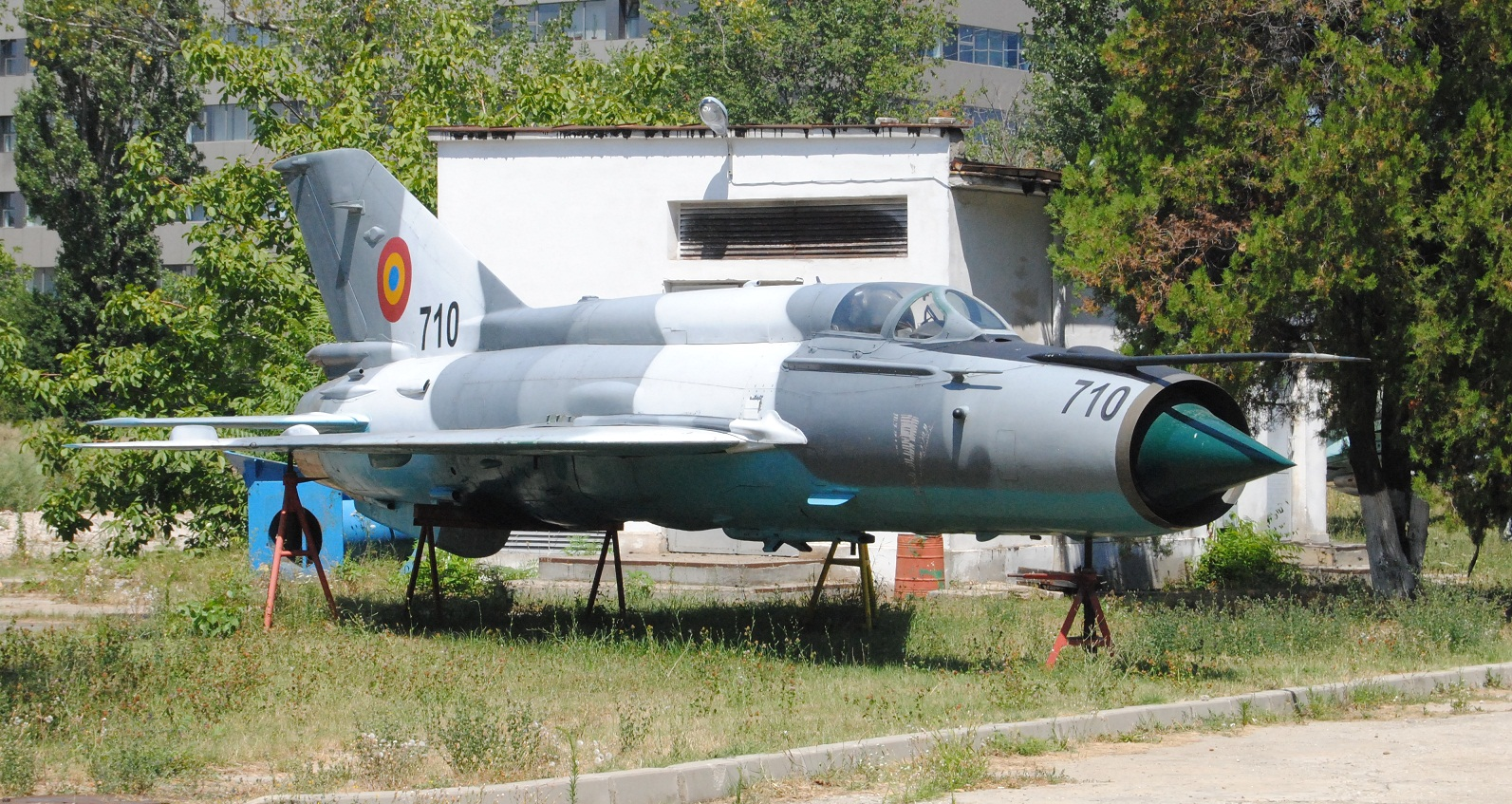 MiG-21 LanceR air police paintjob at the Aviation Museum in Bucharest